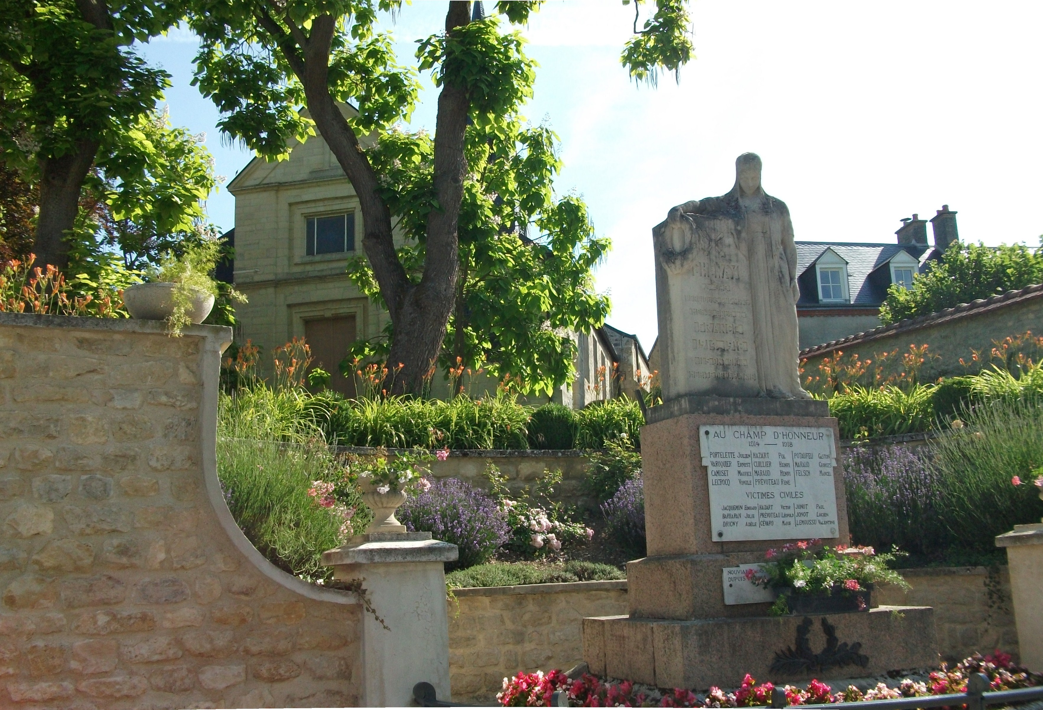 Church and monument to the fallen in WW1 in Chenay.